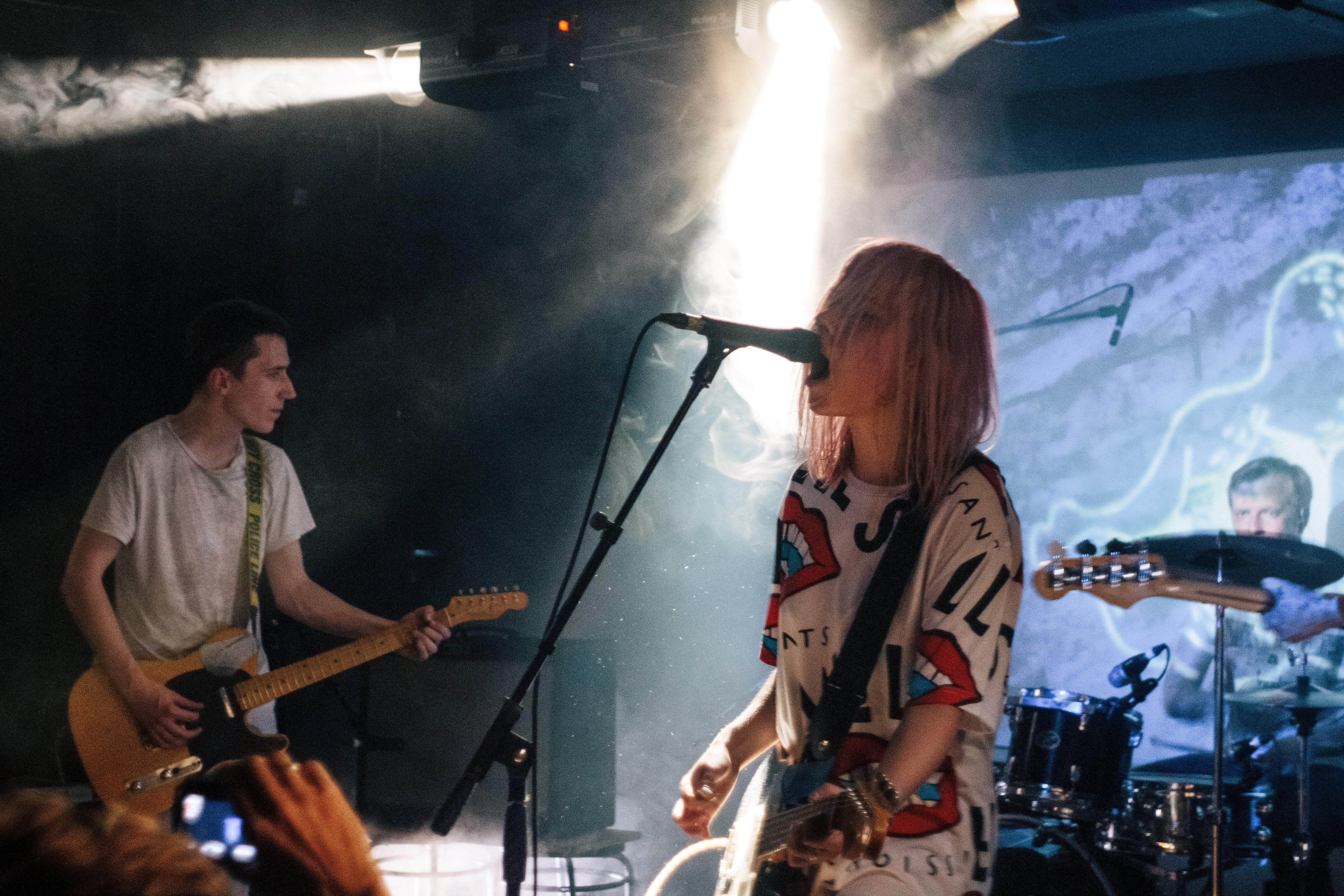 Russian band Glintshake @DADA (11.07.14)